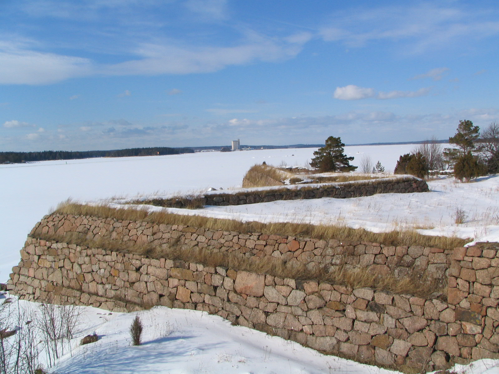 Svartholma Sea Fortress. Photo by Ohto Kokko.